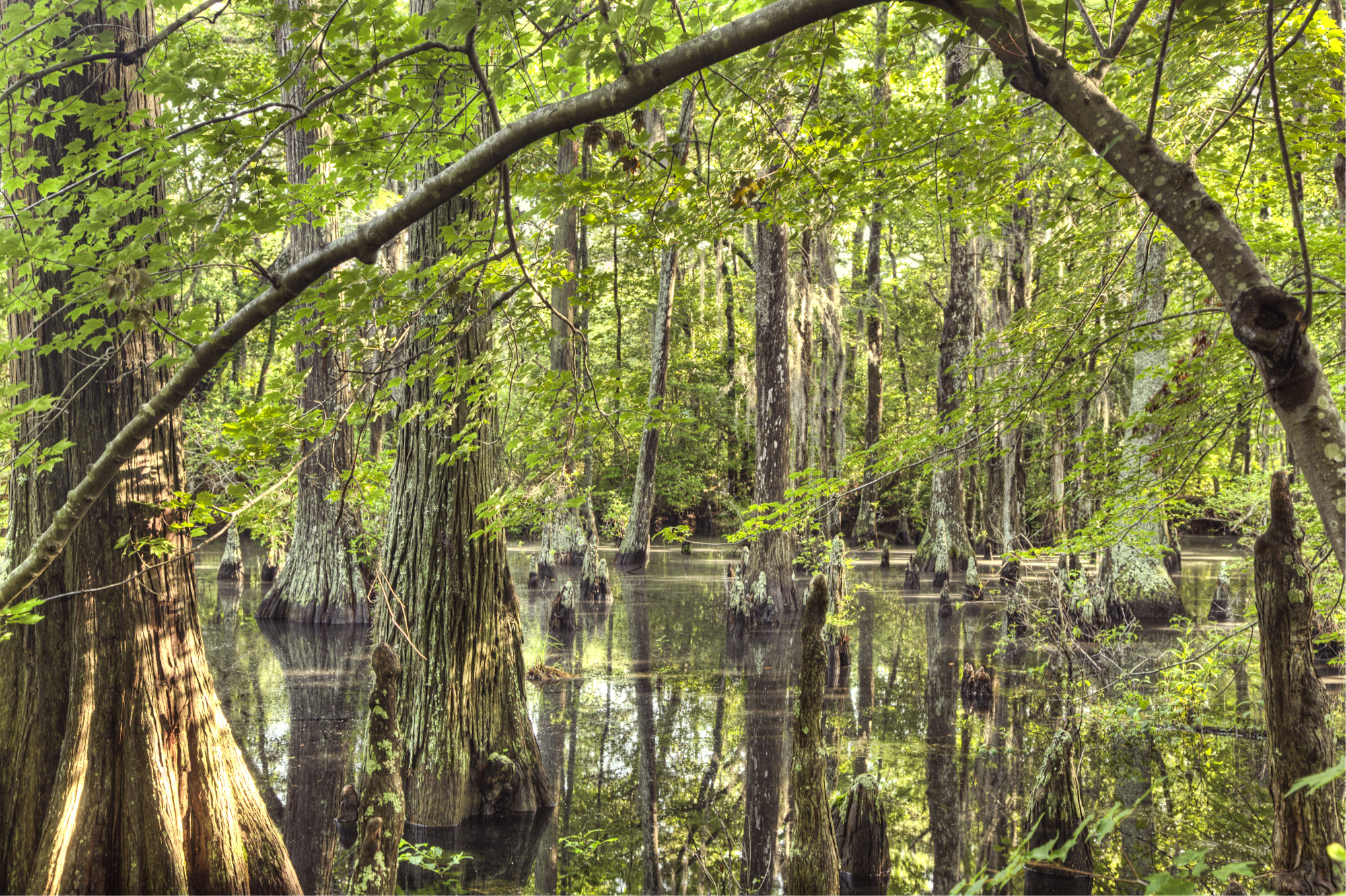 nsh Photo by Angela Pan but no photo credit required, rights given in exchange for lodging